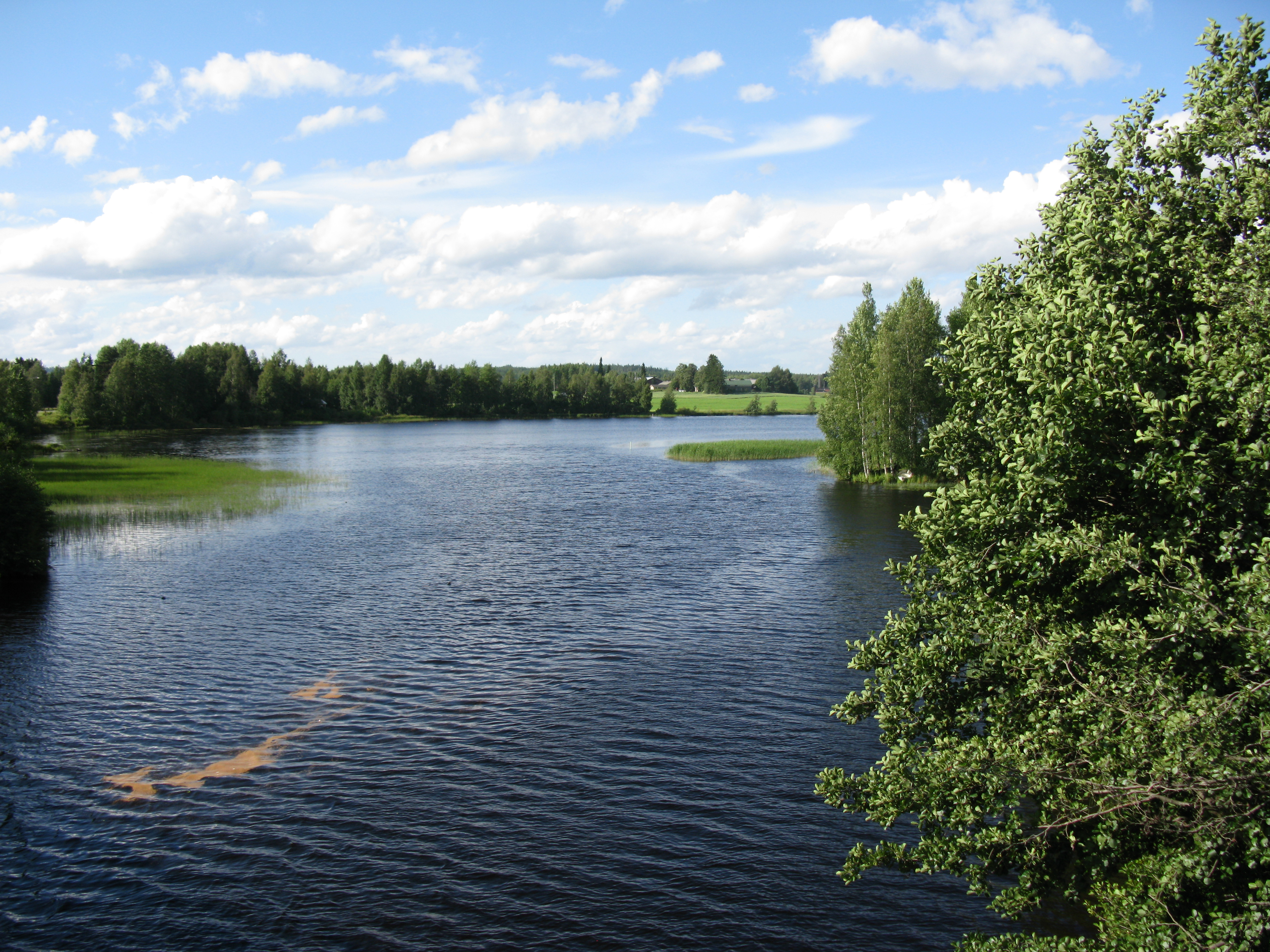 Koljonvirta strait in Iisalmi, Finland, seen towards the North from the bridge of the main road 27